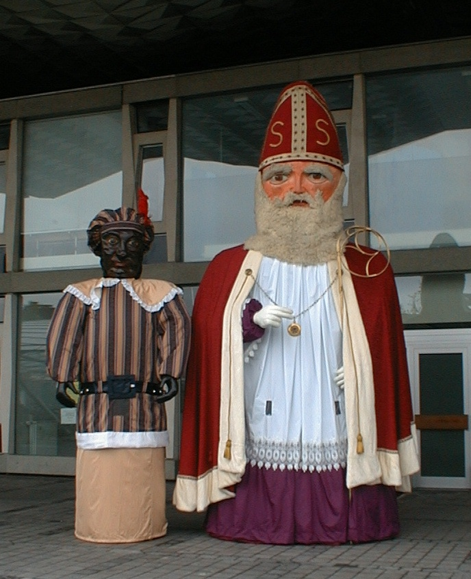 Own work: giants of Sint-Niklaas, called 'Sinterklaas' and 'Zwarte Piet' (Black Peter). Hoogte/height 5 m; gewicht/weight 100kg; wordt gedragen door 3 personen / carried by 3 people. These 2 giants are unique in the world. They are symbols of the town of Sint-Niklaas and the Saint Nicholas folklore.